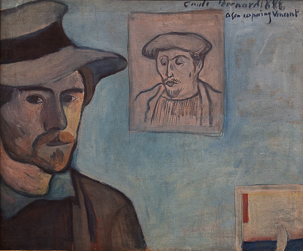 Self-portrait with portrait of Gauguin. oil on canvas